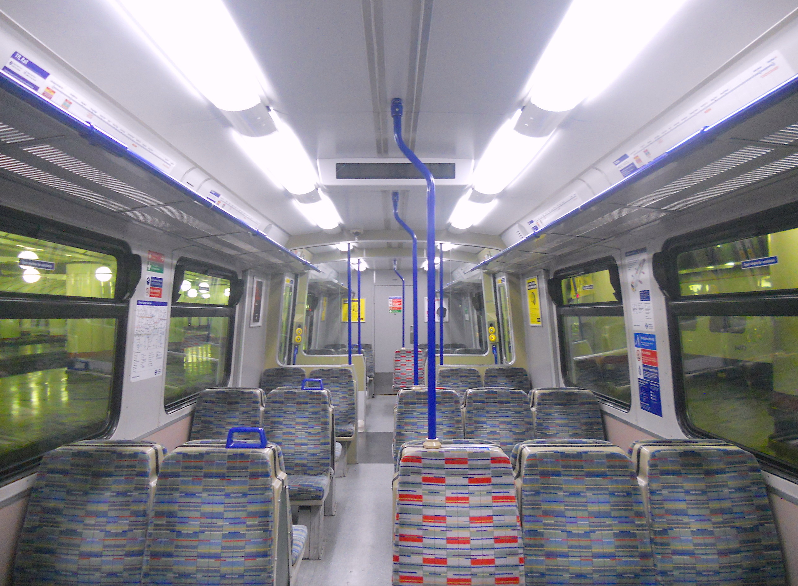 The interior of refreshed DMSO vehicle aboard a TfL Rail Class 315